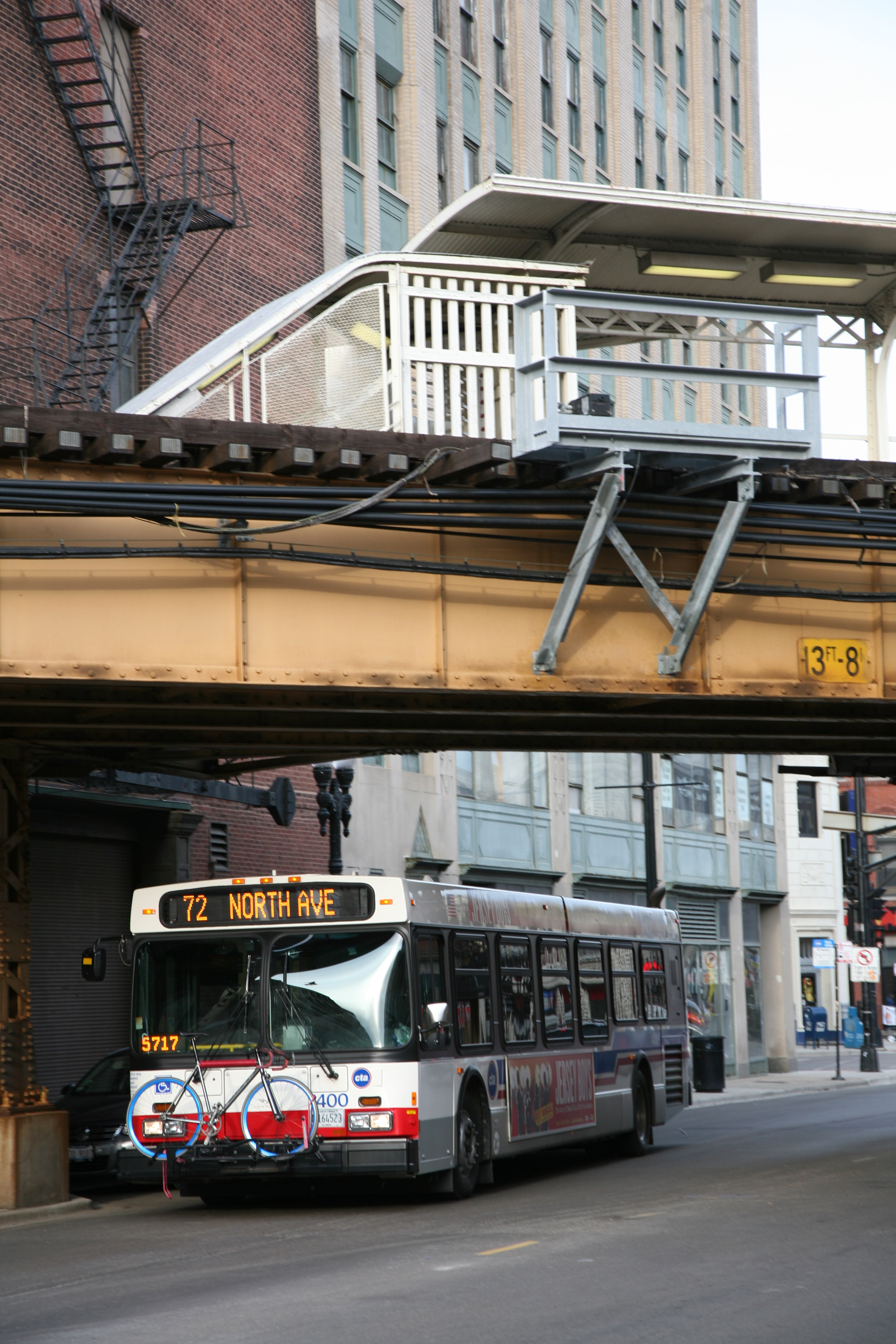 A CTA New Flyer D40LF on route 72 at the Damen Blue Line station.